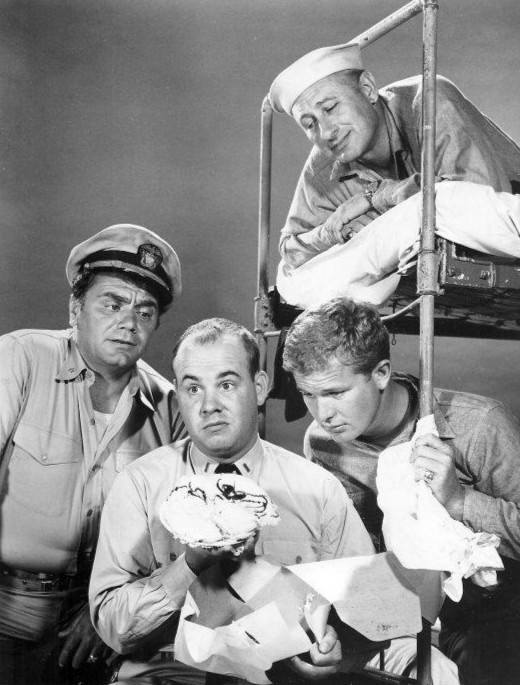 Photo from the television program McHale's Navy. In the photo, McHale (Ernest Borgnine), Gruber (Carl Ballantine, in top bunk), and Christie {Gary Vinson, seated on lower bunk), have a look at the cake Ensign Parker (Tim Conway) received in a package from home.